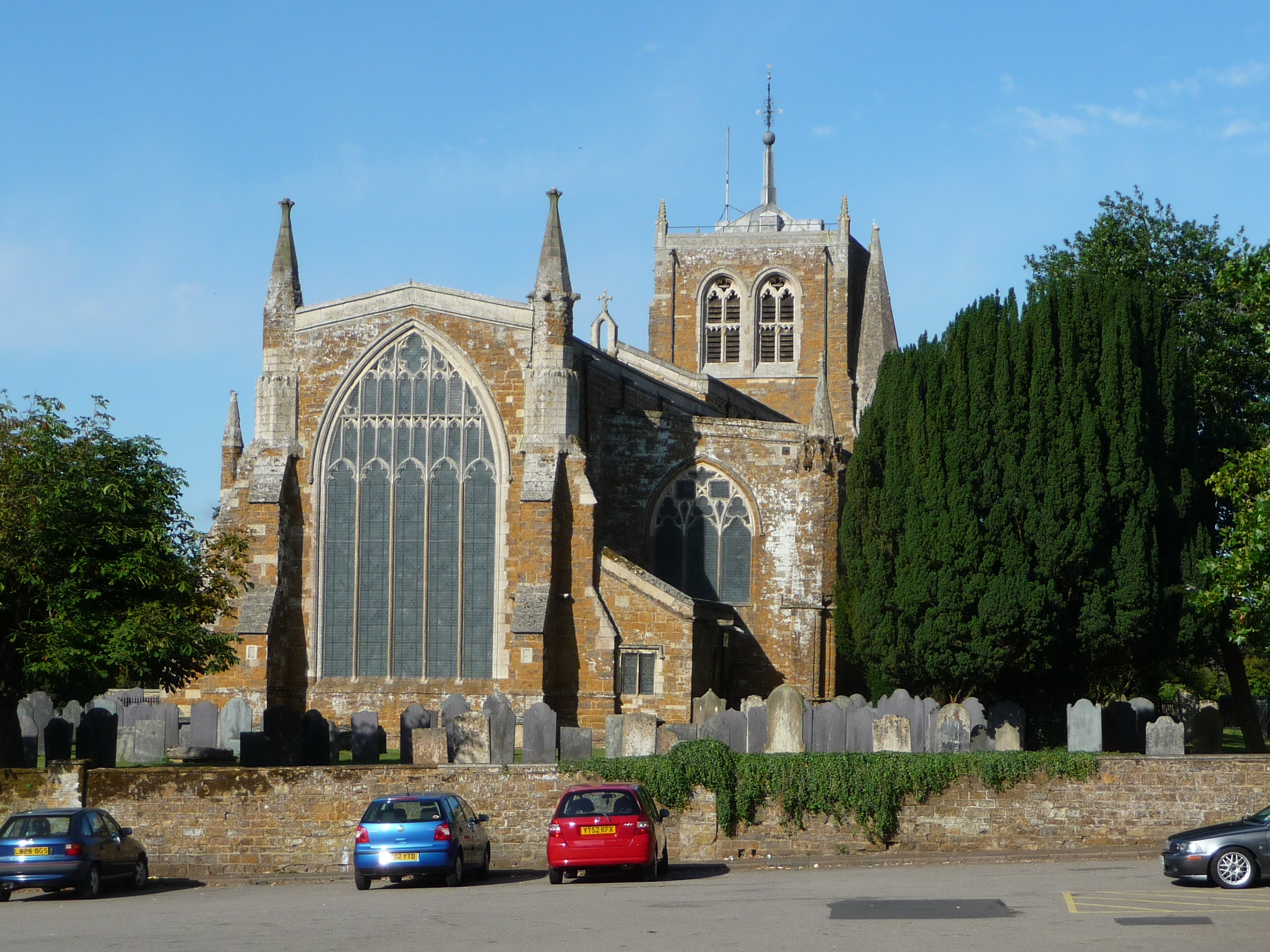 Church of England parish church of the Holy Trinity, Rothwell, Northamptonshire: view from the east, showing the chancel east window